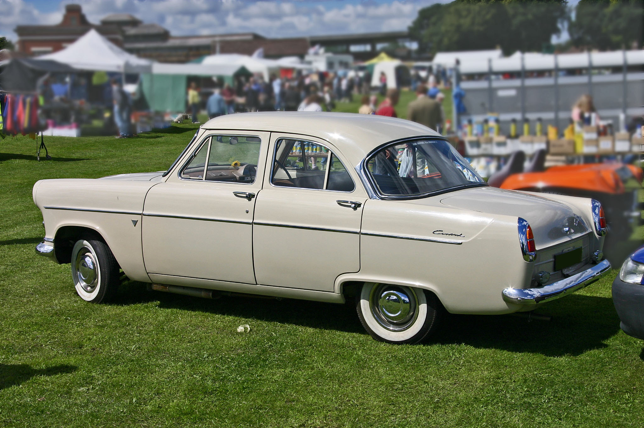 Ford Consul MkII (204E), Introduced in 1956 one month after the similar Ford 206E Zephyr and Zodiac. This early Consul has a higher roofline and smaller taillights than the 1959 "lowline" revision.